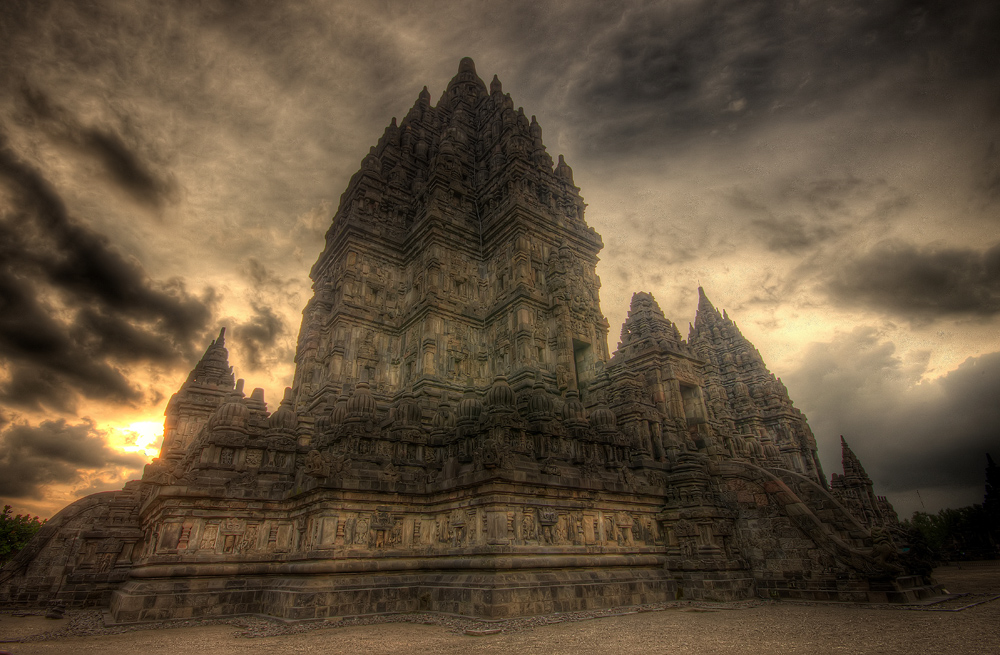 This the main temple at Prambanan HDR If you wish to use this image you can do so freely as long as you give credit to me for the picture by linking to my travel blog